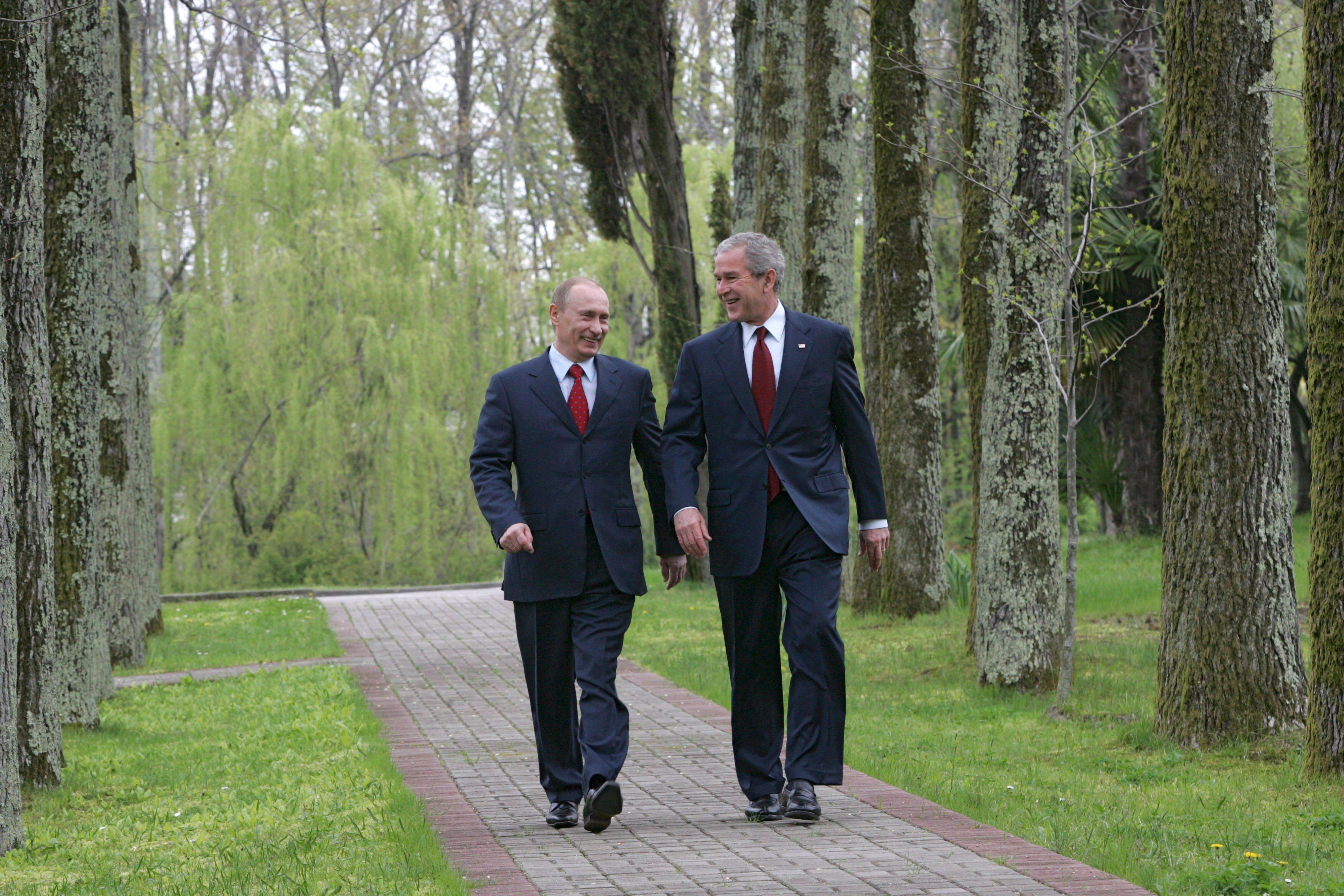 BOCHAROV RUCHEI, SOCHI. With American President George W. Bush before the beginning of a briefing for journalists following the Russian-American talks.